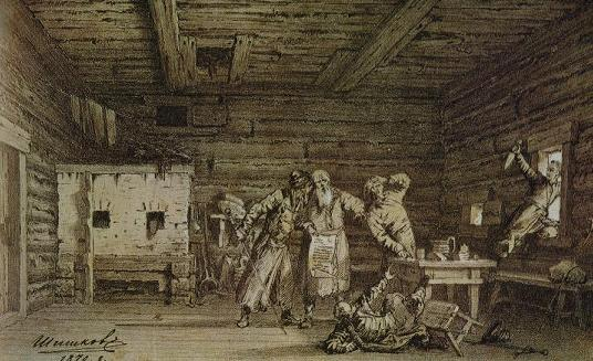 Shiskov design for the Inn scene of Boris Godunov (1874)